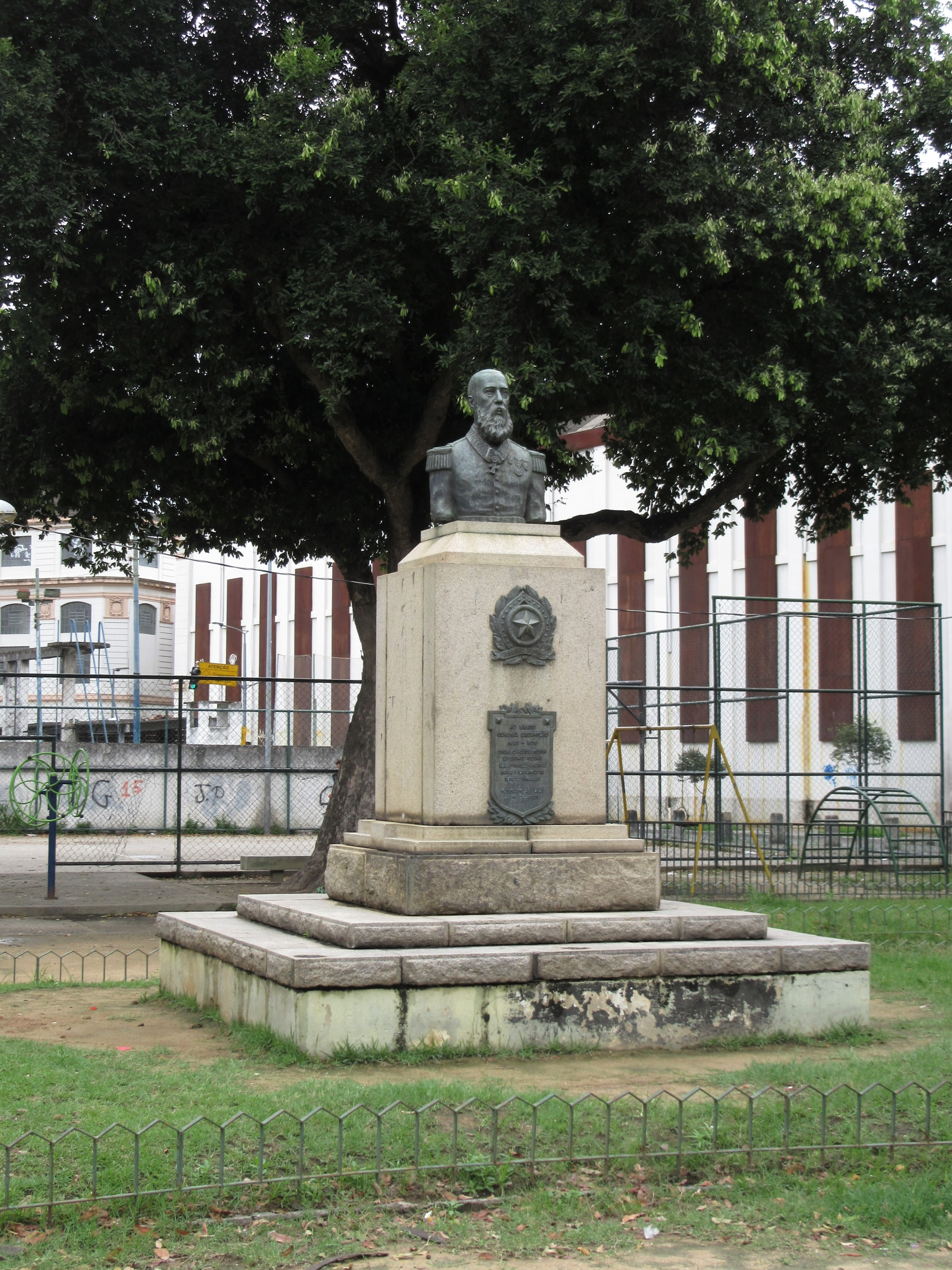 2018 Rio de Janeiro